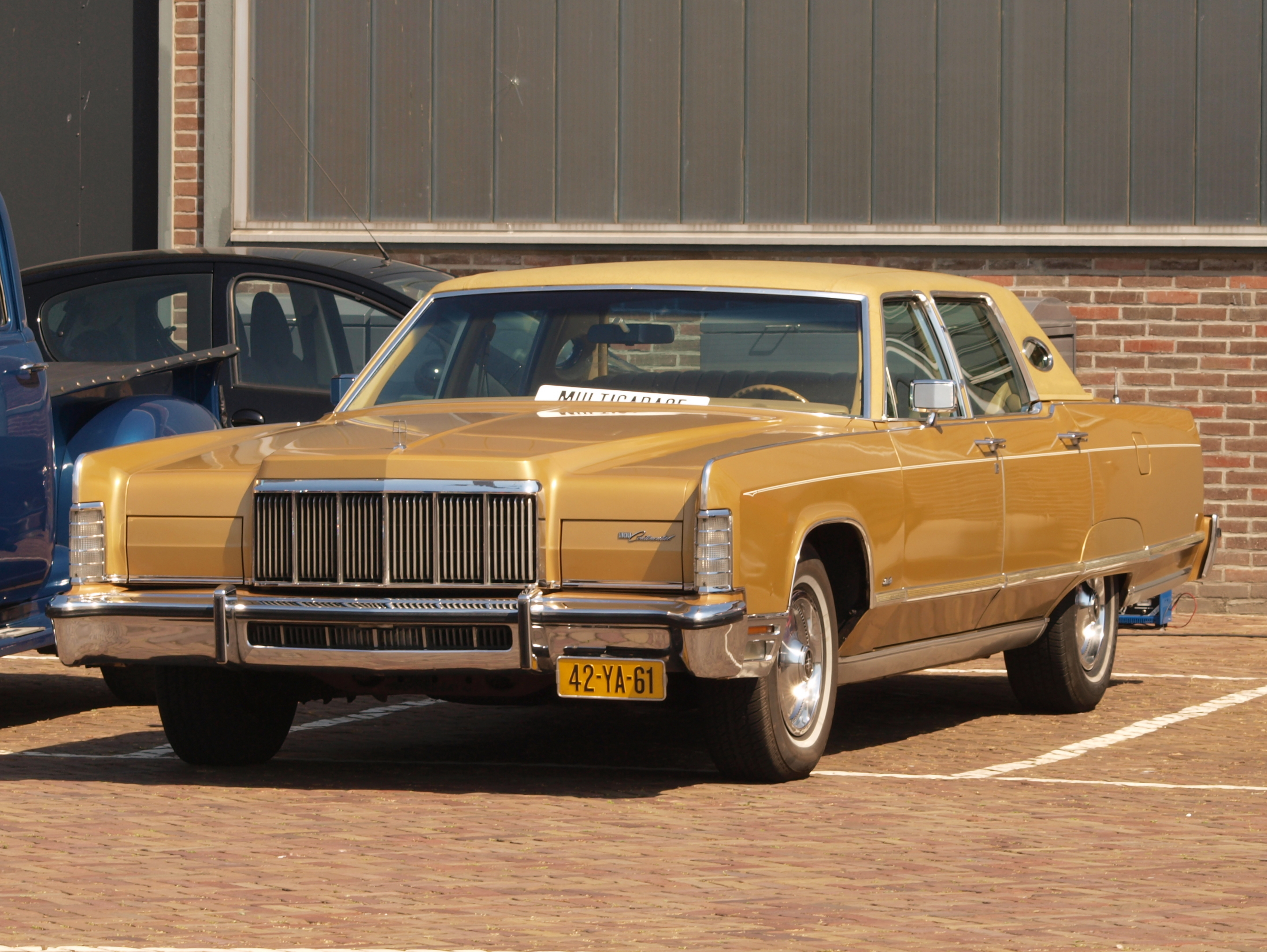 Photographed at Den Helder, The Netherlands. OLYMPUS DIGITAL CAMERA